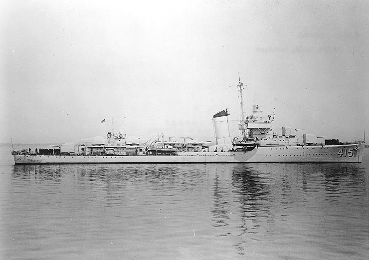 The U.S. Navy destroyer USS O'Brien (DD-415) photographed soon after completion, circa 1940.